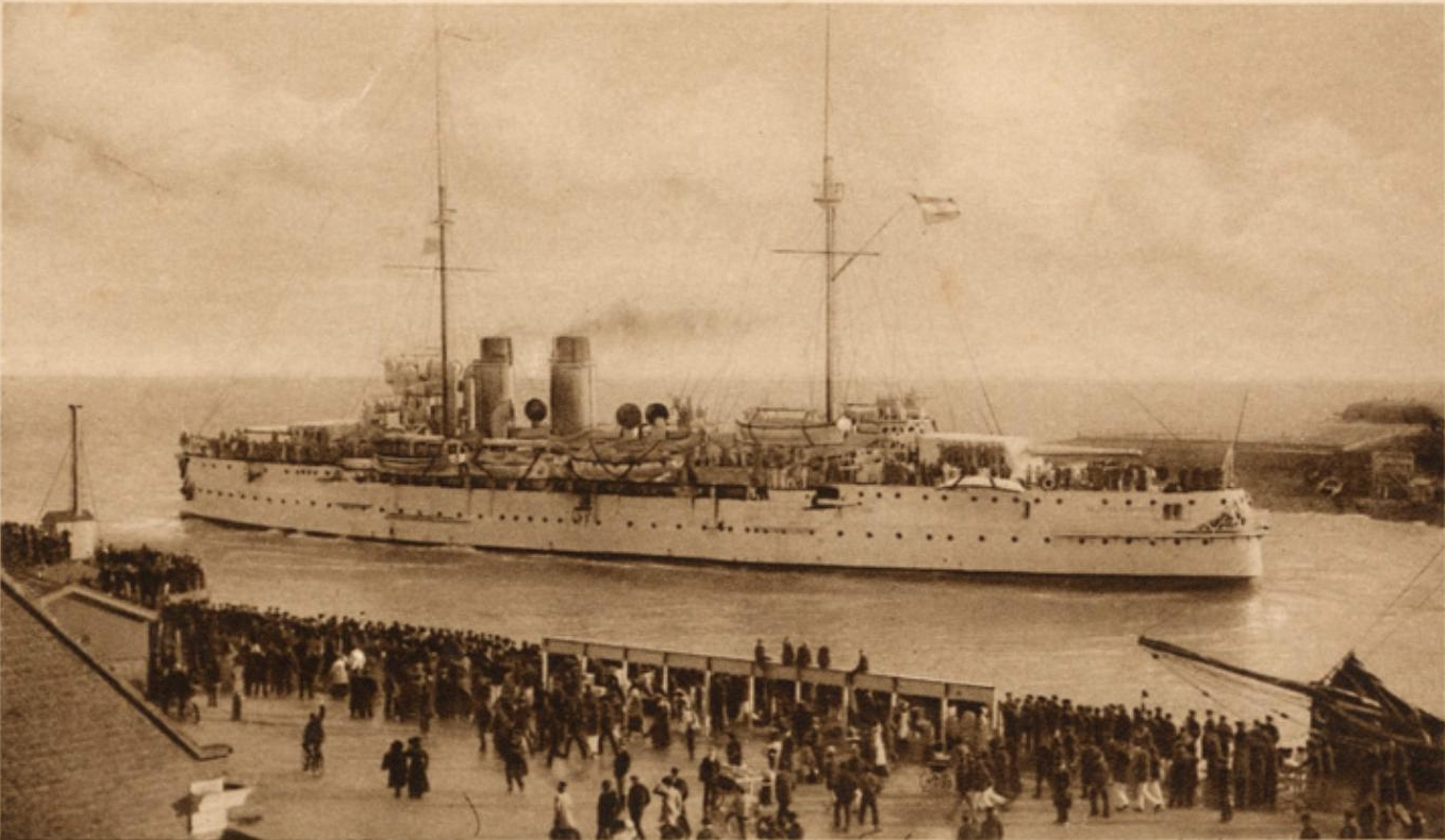 The armored ship Hr.Ms. De Zeven Provinciën leaving the port of Den Helder for probably her what is probably her first trip to the Dutch East Indies, with many spectators on the quay.